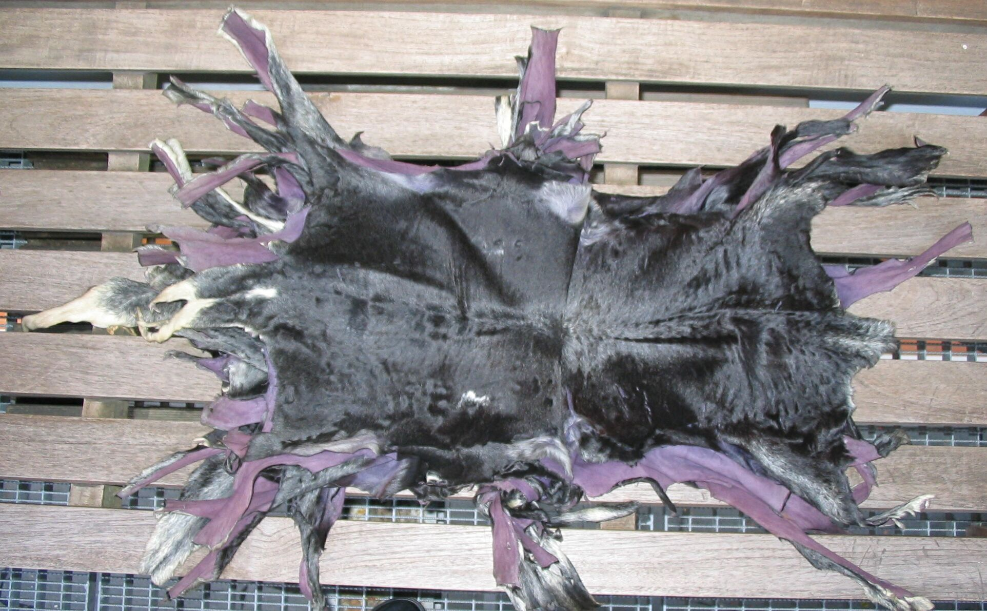 Broadtail fur skins